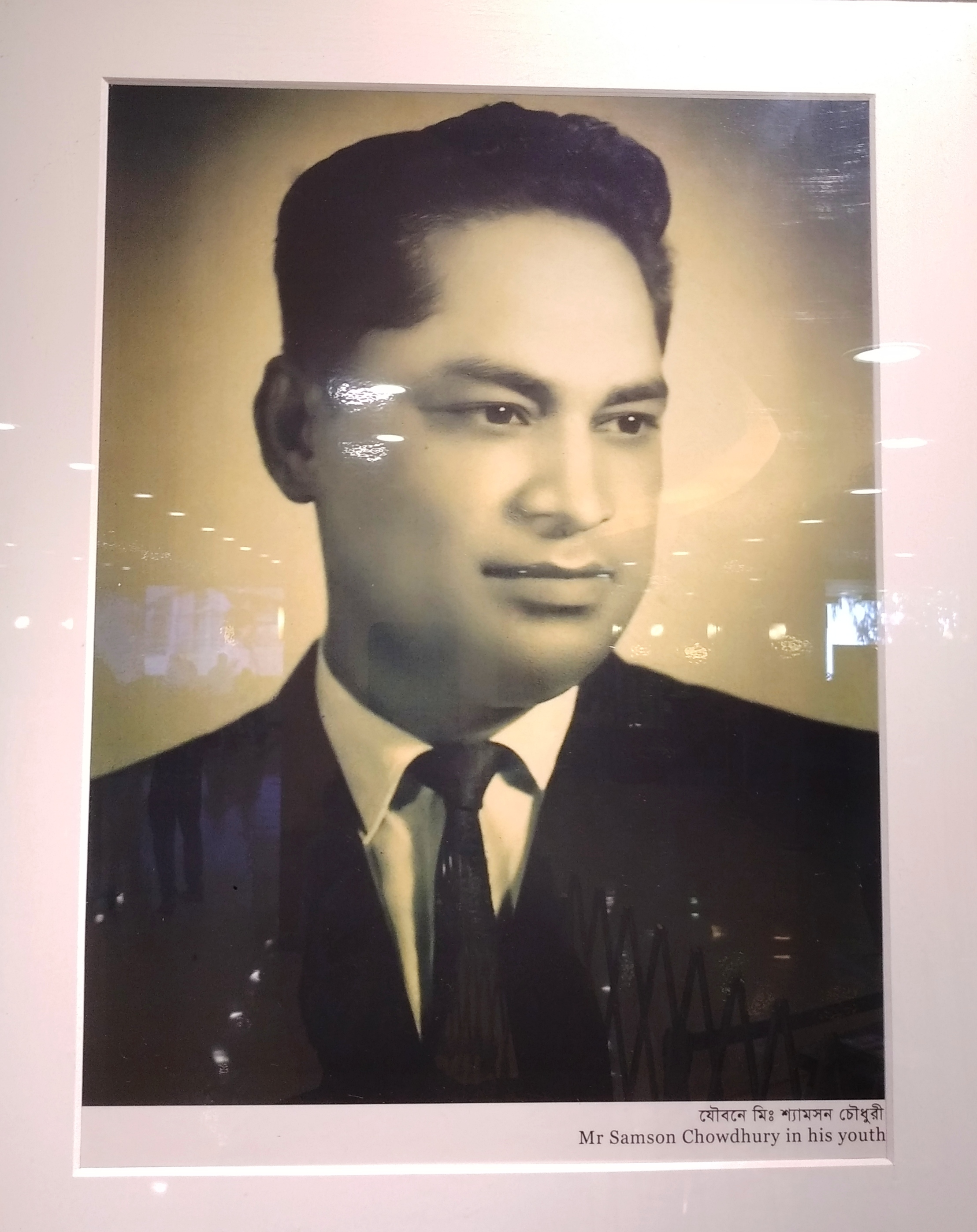 Samson H. Chowdhury in his youth, black and white photo.